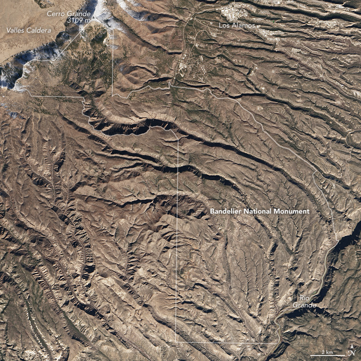 On December 5, 2015, the Operational Land Imager (OLI) on Landsat 8 captured a natural-color image of Bandelier (top). The monument area encompasses about 130 square kilometers (50 square miles) of land west of Santa Fe and adjacent to Los Alamos National Laboratory. The second image was acquired by National Park Service photographer Sally King. It shows the tall walls of Frijoles Canyon and some dwellings along its base—a site called Long House. These remnants of earlier human presence are too small to be spotted from space, but you can get a sense of the landscape that made it a favorable place to build. The cliffs are soft volcanic tuff, composed of consolidated ash from the eruption of the Jemez Volcano more than 1 million years ago. The volcano’s summit collapsed and formed the Valles Caldera, visible in the top left corner of the Landsat image. Rising from the rim of the caldera, and marking Bandelier’s northwestern boundary, is the snow-capped summit of Cerro Grande—the monument’s highest elevation at 3109 meters (10,199 feet). From that mountaintop down to Bandelier’s southeastern boundary on the banks of the Rio Grande, the land loses almost a vertical mile of elevation. Most of the landscape is designated as wilderness area, and it is lined with deep canyons sharply eroded from the plateaus. The landscape appears more stark and brown in the satellite image than it might at other times of the year. “The winter scene really lets you see the landscape without much vegetation softening it,” said Kay Beeley, an NPS cartographic technician for Bandelier National Monument. “This image catches Bandelier at one of the least active times of the year for vegetation growth,” said Craig Allen, a U.S. Geological Survey ecologist at Bandelier. “The vegetation is quite dormant at all elevations in December due to relatively cold winter temperatures.”